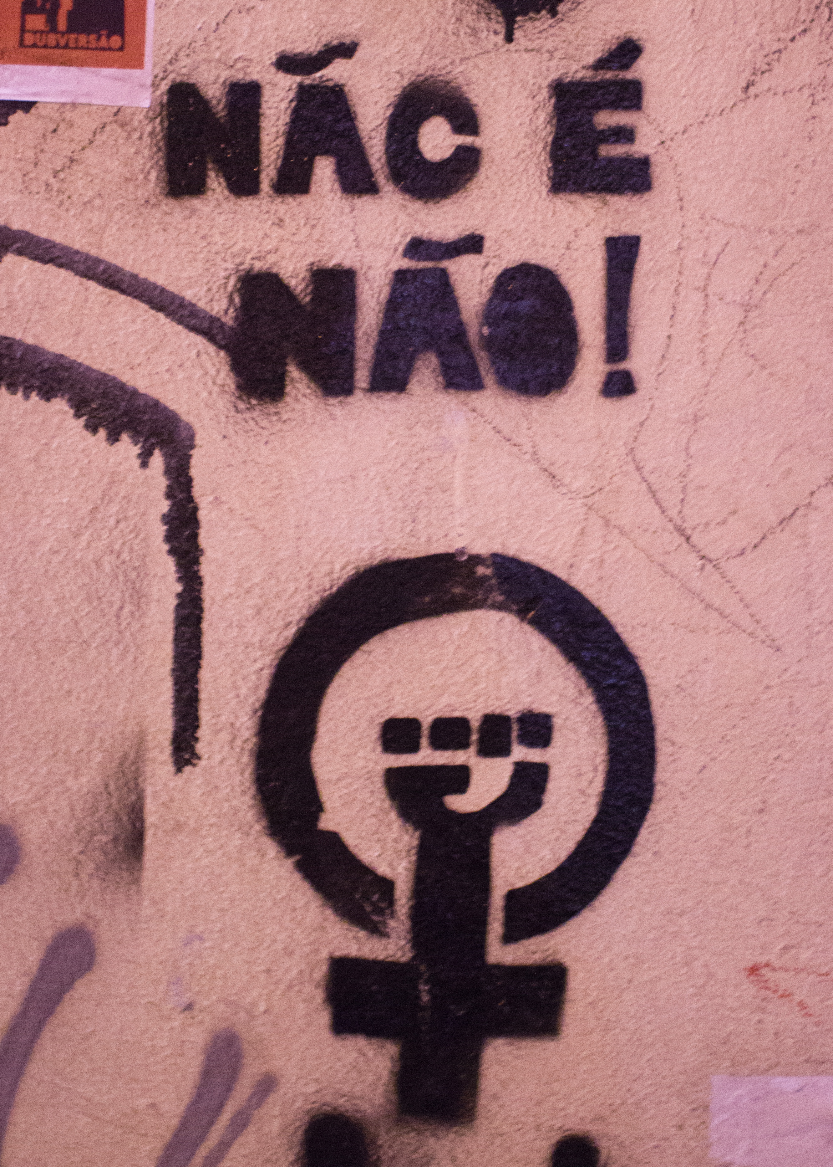 Feminist Stencil Graffito São Paulo March 2012